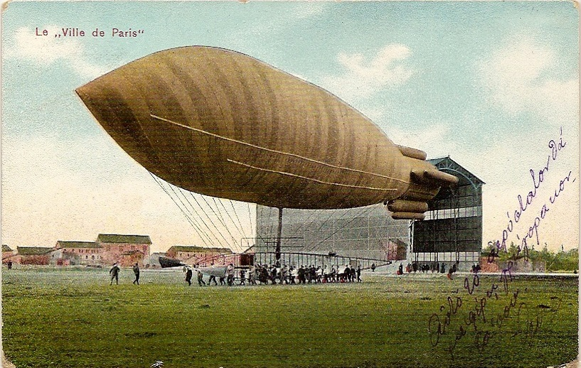 Colorized photo #3 of airship "Ville de Paris". Postally used in 1912 from Karystos to Piraeus, Greece.